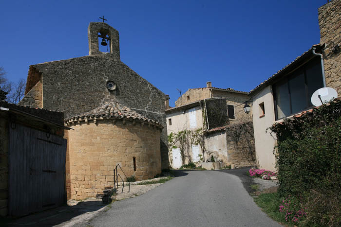 Village of Puget-sur-Durance in Vaucluse, France